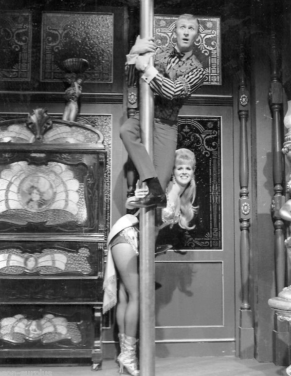 Publicity photo of Fred and Mickie Finn from their television program Mickie Finn's.